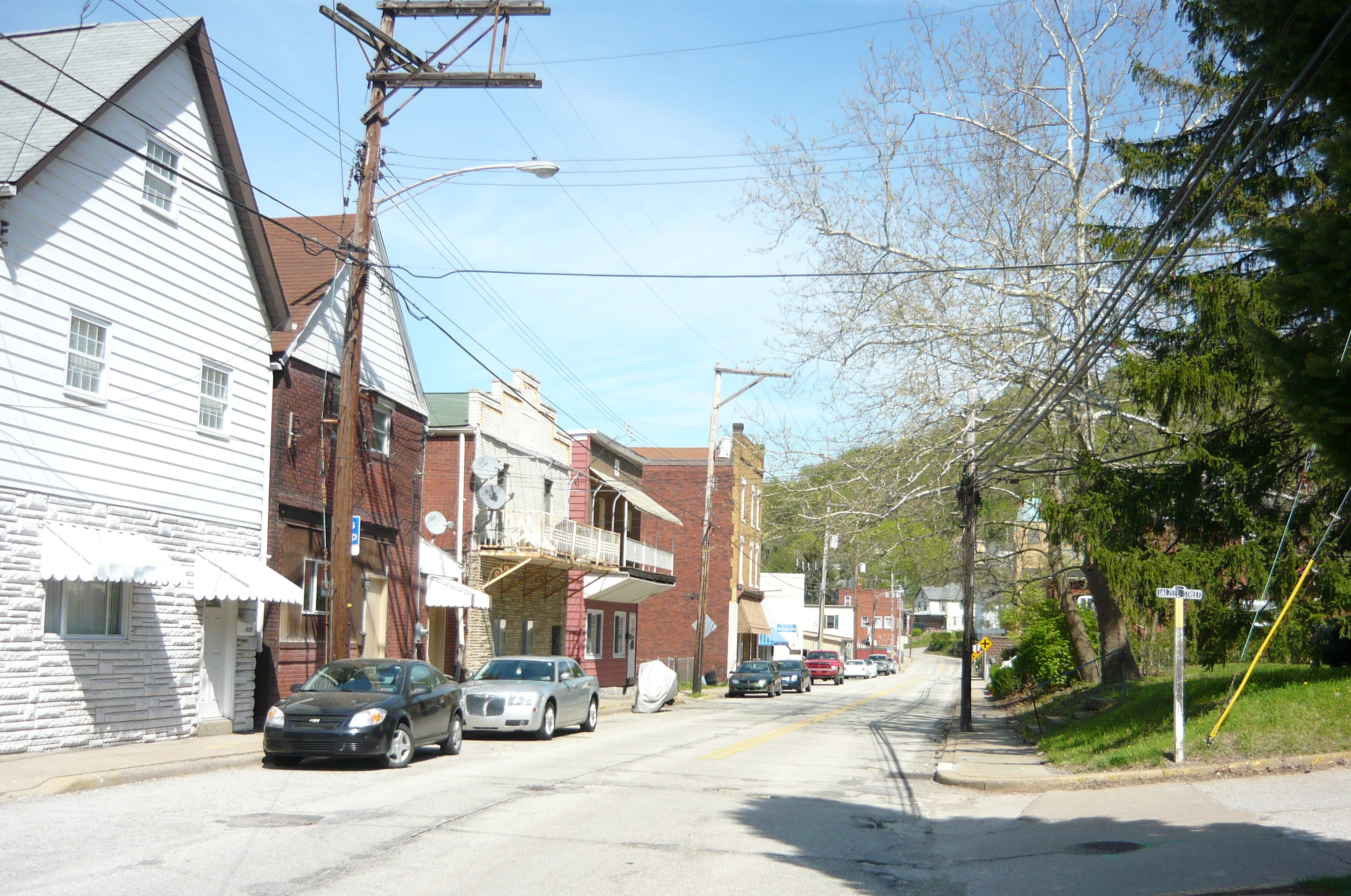 Business district of Borough of Wall, Allegheny County, Pennsylvania. Looking eastward on Wall Avenue from Dalzell Street.